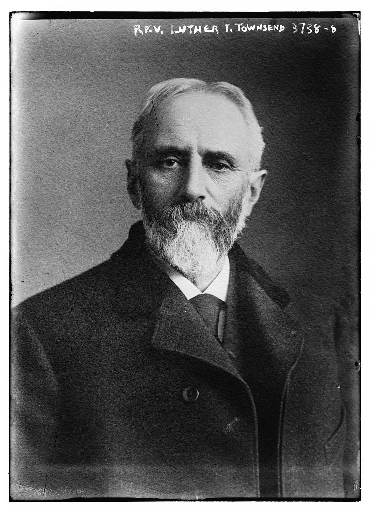 Photograph shows author and clergyman Luther Tracy Townsend (1838-1922). (Source: Flickr Commons project, 2013)